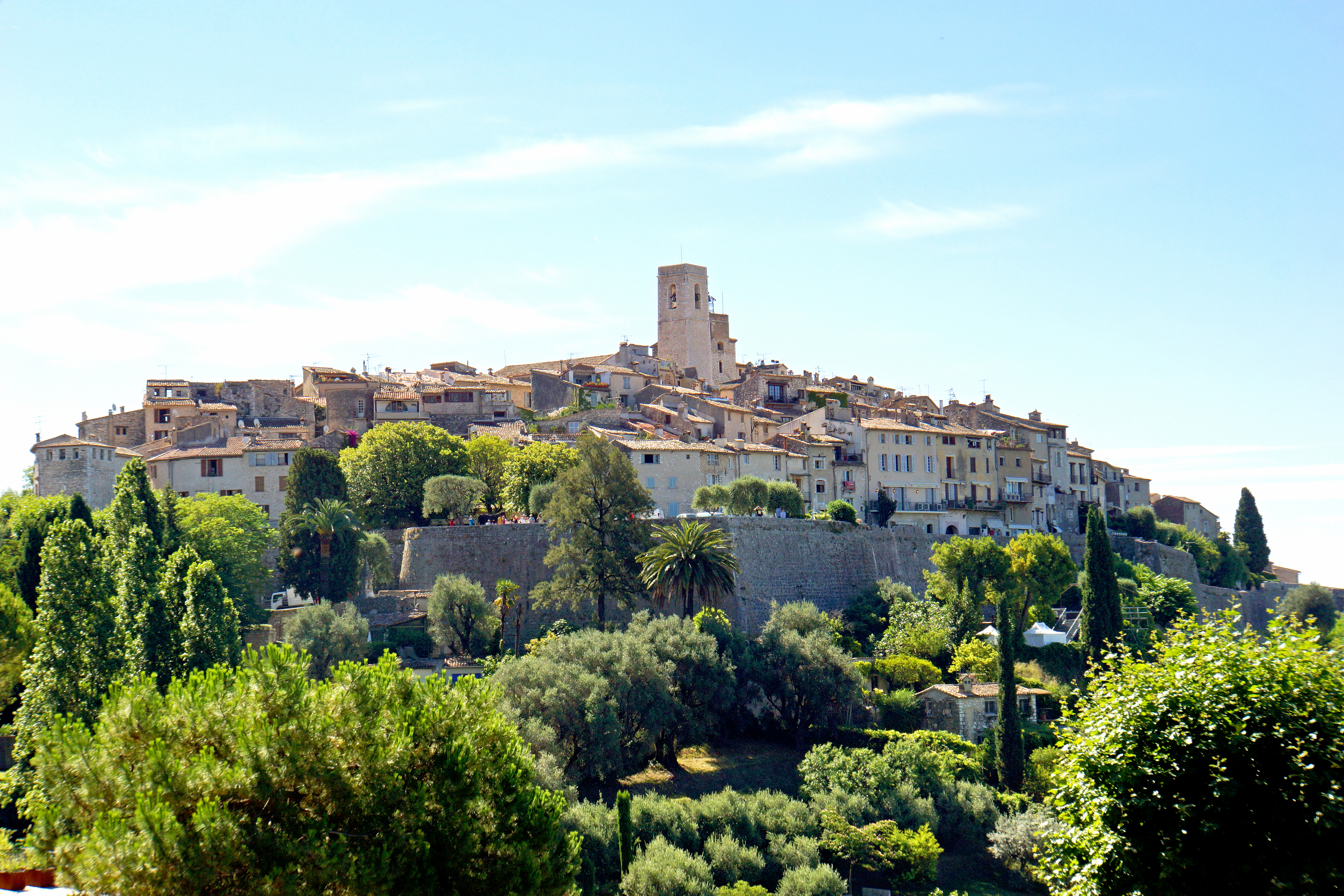 PLEASE, NO invitations or self promotions, THEY WILL BE DELETED. My photos are FREE to use, just give me credit and it would be nice if you let me know, thanks. Saint-Paul-de-Vence is one of the oldest medieval towns on the French Riviera. It is also well known for the artists that work(ed) and live(d) here.